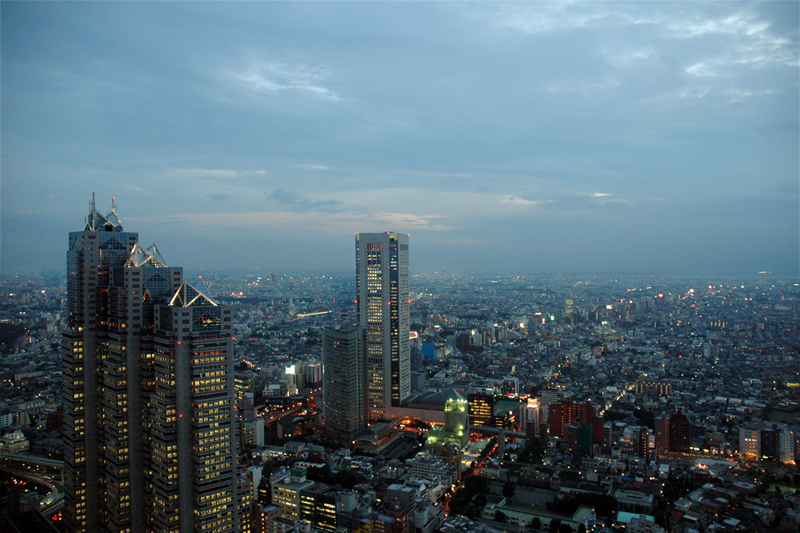 Tokyo at night